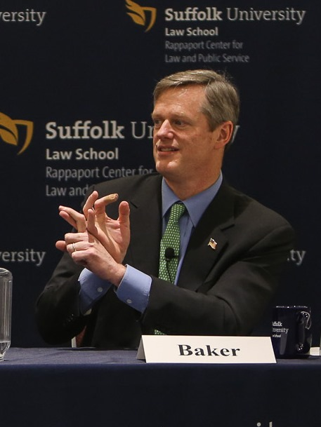 Republican candidate for governor Charlie Baker at the Rappaport Center for Law and Public Service at Suffolk Law School on Feb. 4, 2014.